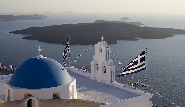 View of the Caldera of Santorini with a church in the foreground.